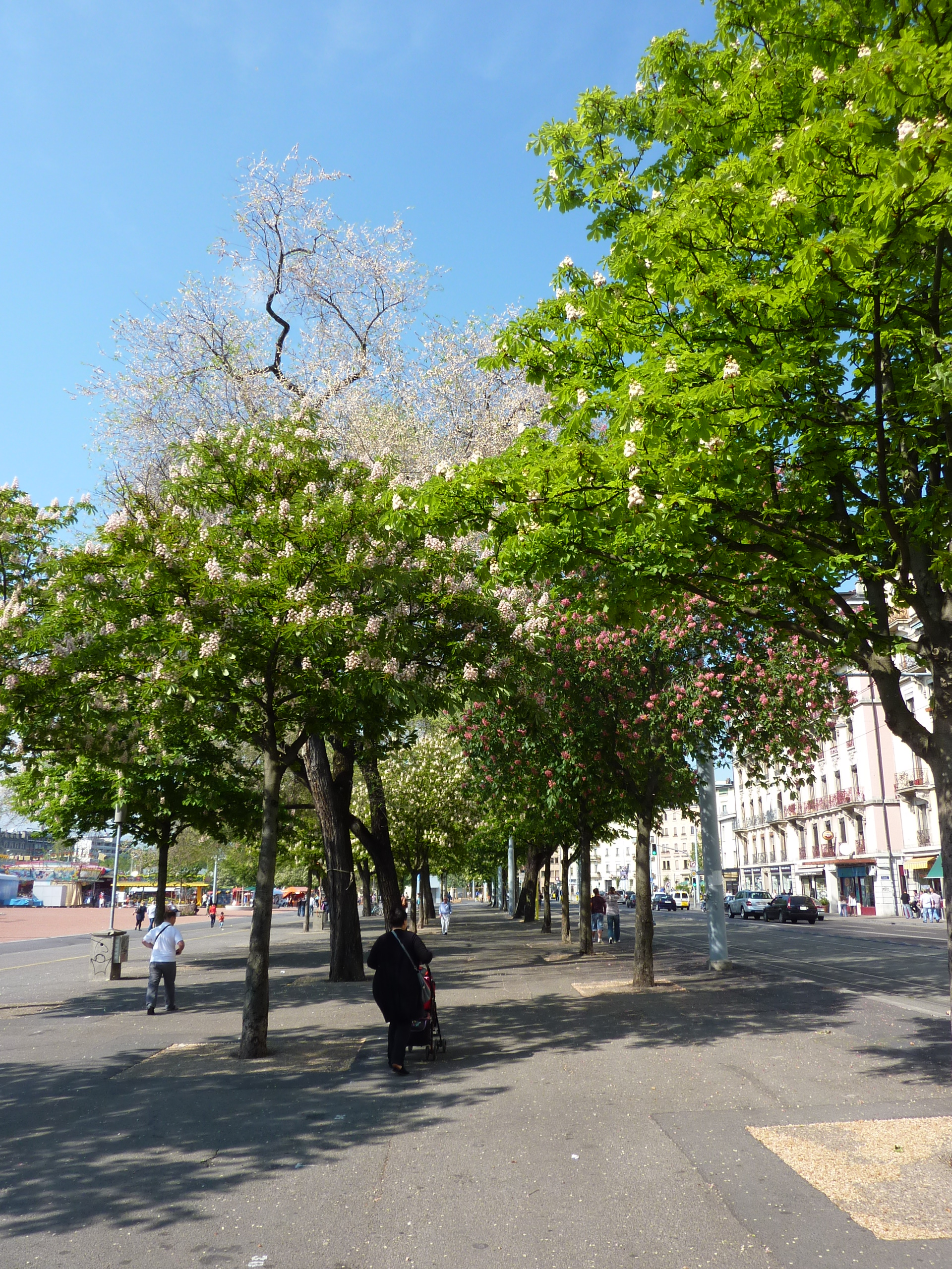 Plaine de Plainpalais in Geneva, Switzerland